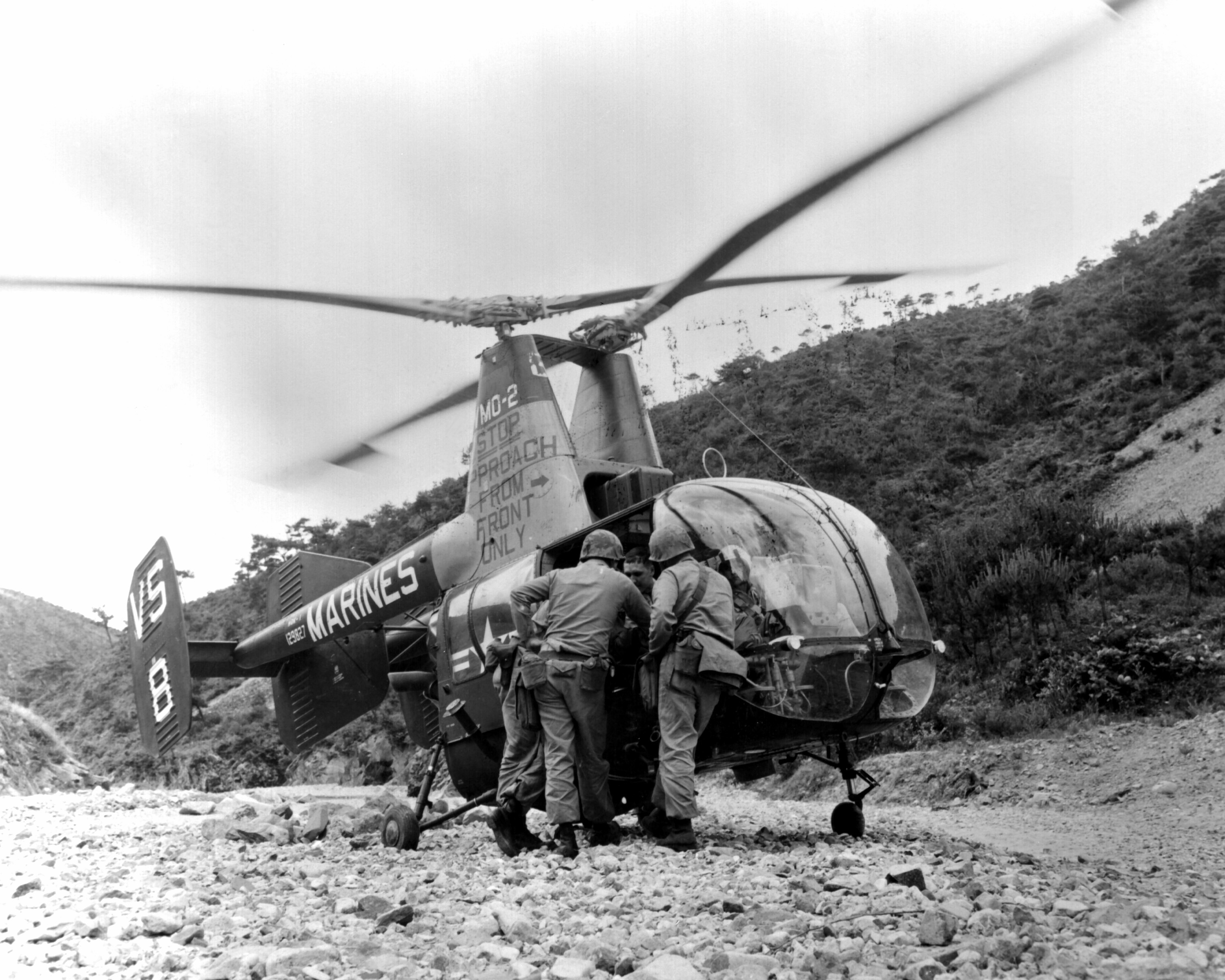 U.S. Marines from A Company, 1st Battalion, 5th Marine Regiment talk with a pilot from Marine observation squadron VMO-2 before he makes a reconnaissance flight in a Kaman HOK-1 Huskie helicopter (BuNo 129827) during operation “Seahawk” in South Korea on 1 June 1960. Operation “Seahawk” was a combined amphibious landing with South Korean forces in June 1960. The HOK-1 129827 was redesignated OH-43D in 1962 and flew with the civil registry “N5172Q” after its military service.